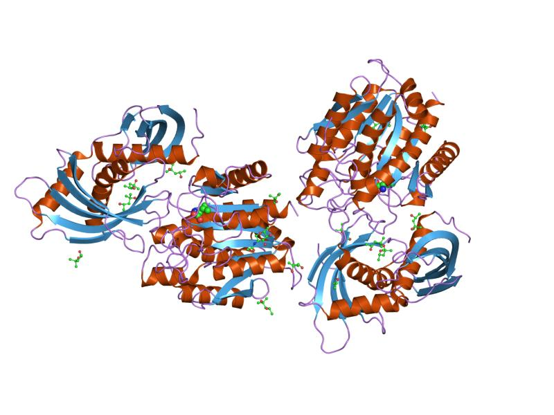 Cartoon representation of the molecular structure of protein registered with 2bo9 code.